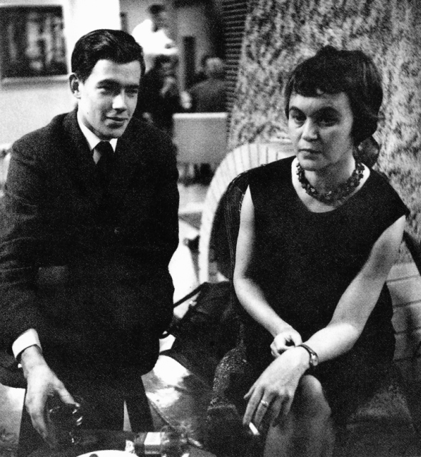 Photograph of the Finnish literature scholars Pekka Tarkka (1934–) and Mirjam Polkunen (1926–2012) at the home of Armo Hormia in Turku.